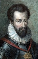 Picture of Henry of Lorraine, third Duke of Guise. By age.